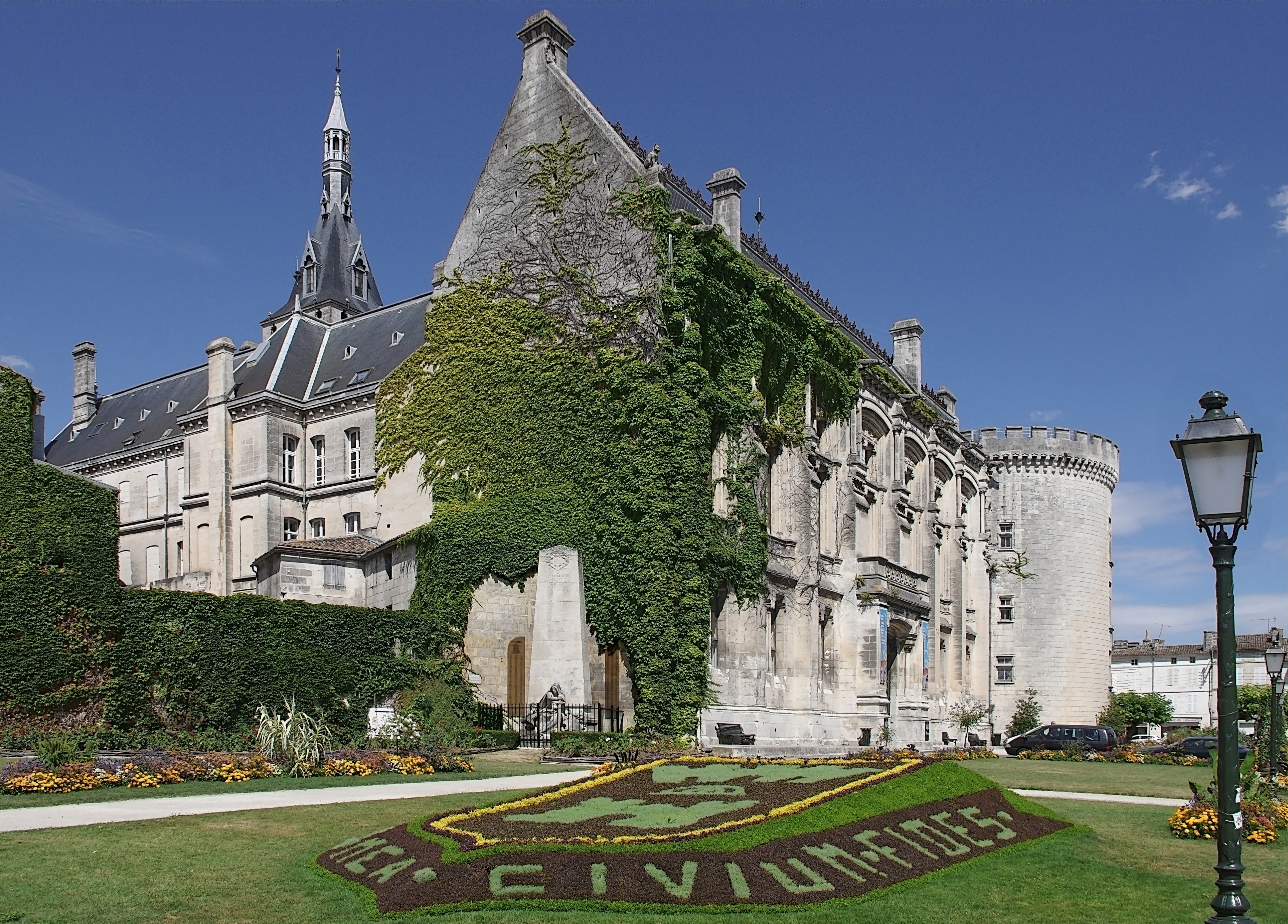 Angoulême Town hall, seen from small parc John-F.-Kennedy, Angoulême, Charente, France.